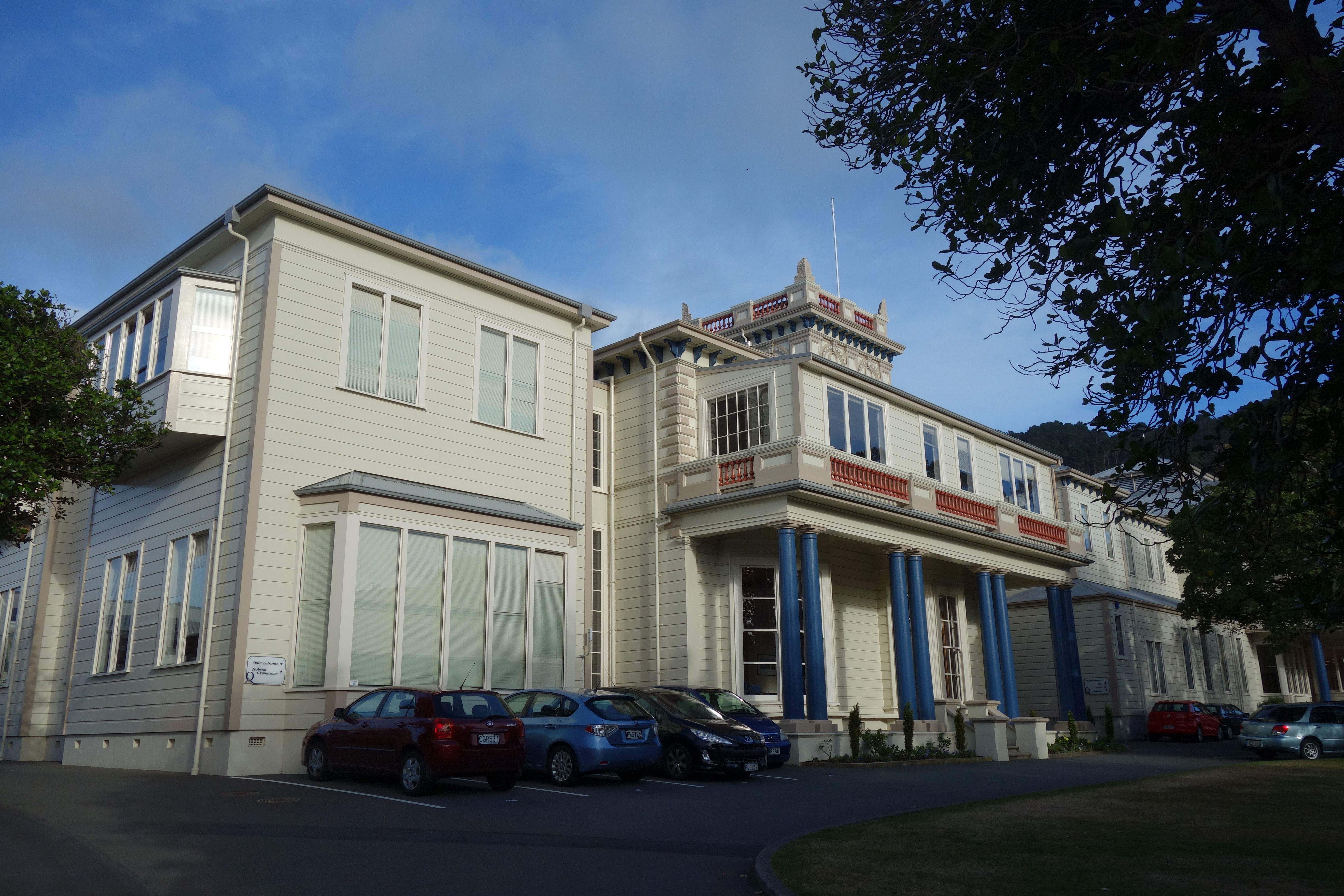 Queen Margaret College in March 2014.